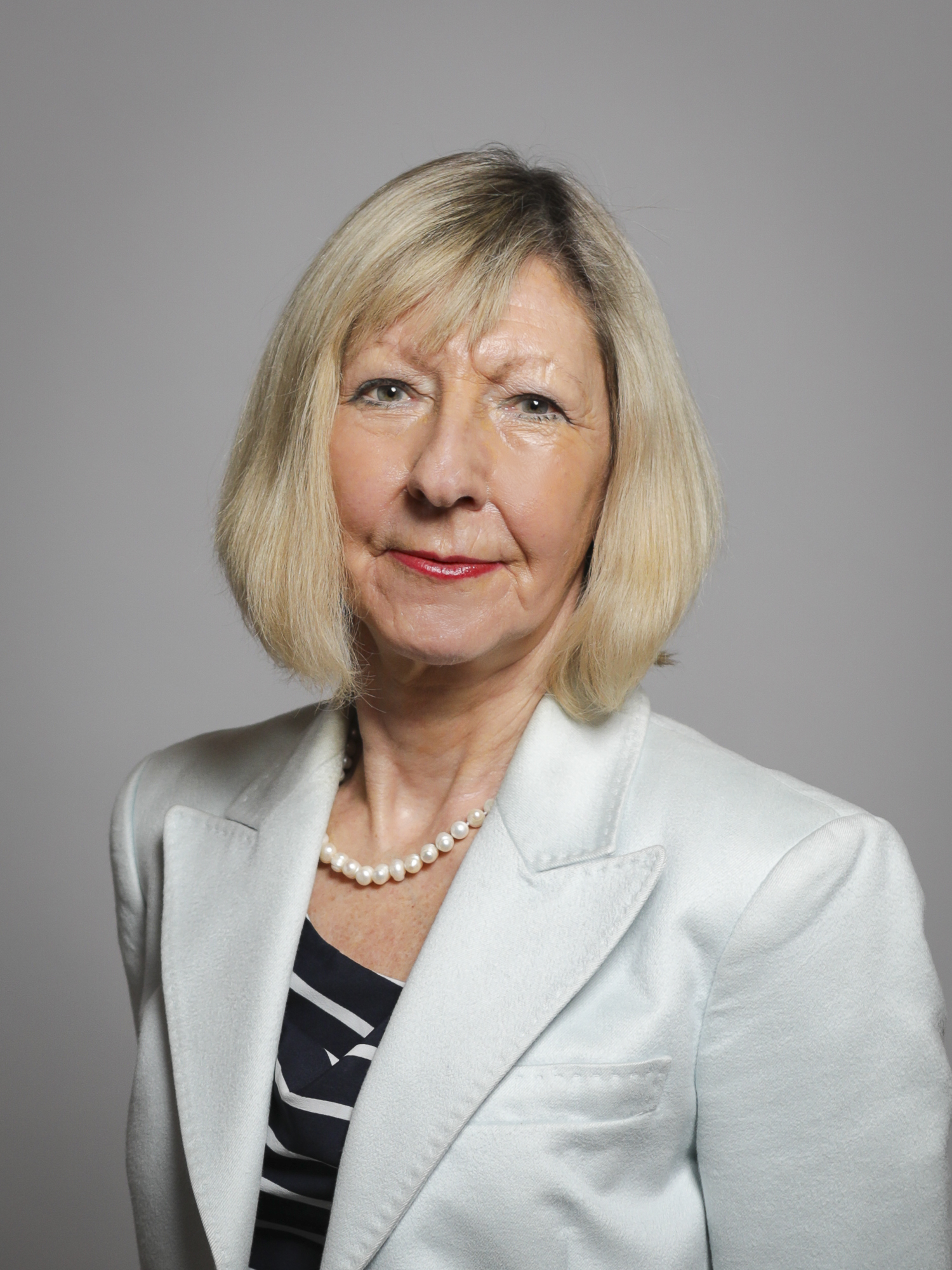 Official portrait of Baroness Wheatcroft 3×4 portrait of Baroness Wheatcroft